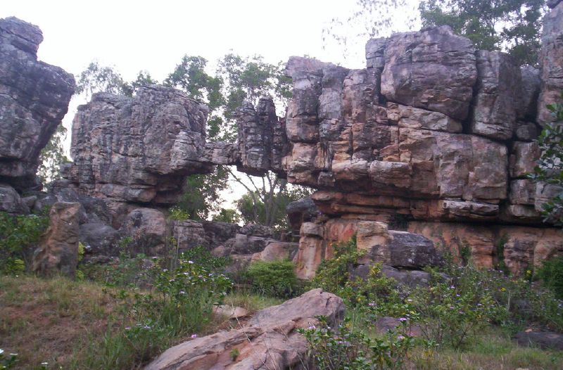 Silatornam is a natural multi-rock arch formation - reputed to be one of the three such natural structures in the world. The other two are in Utah, USA and UK